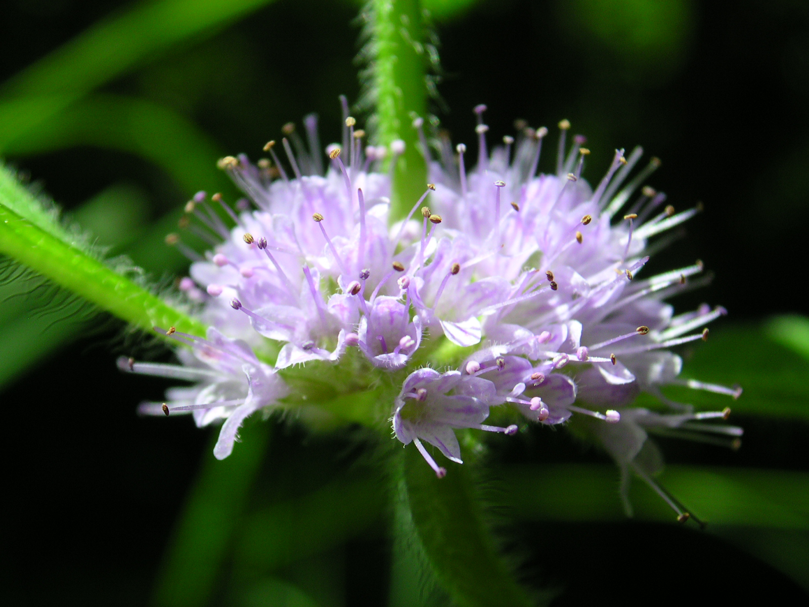 Mentha_arvensis_2